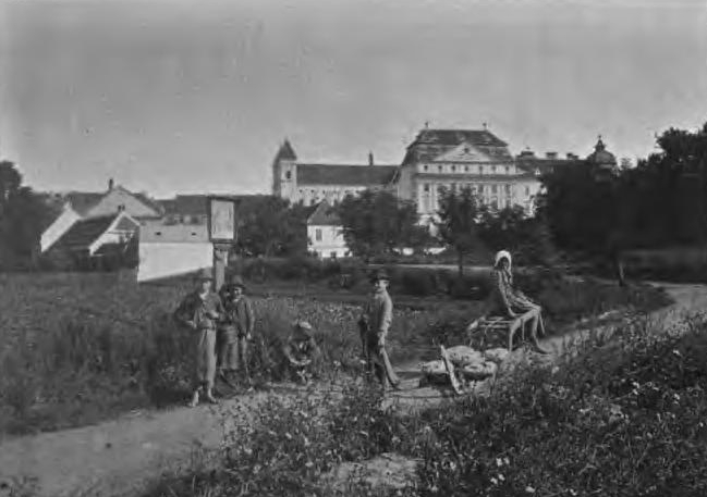 Loucký klášter (Znojmo) - Text pod obrázkom v knihe - Bývalý premonstrátský klášter v Louce u Znojma.